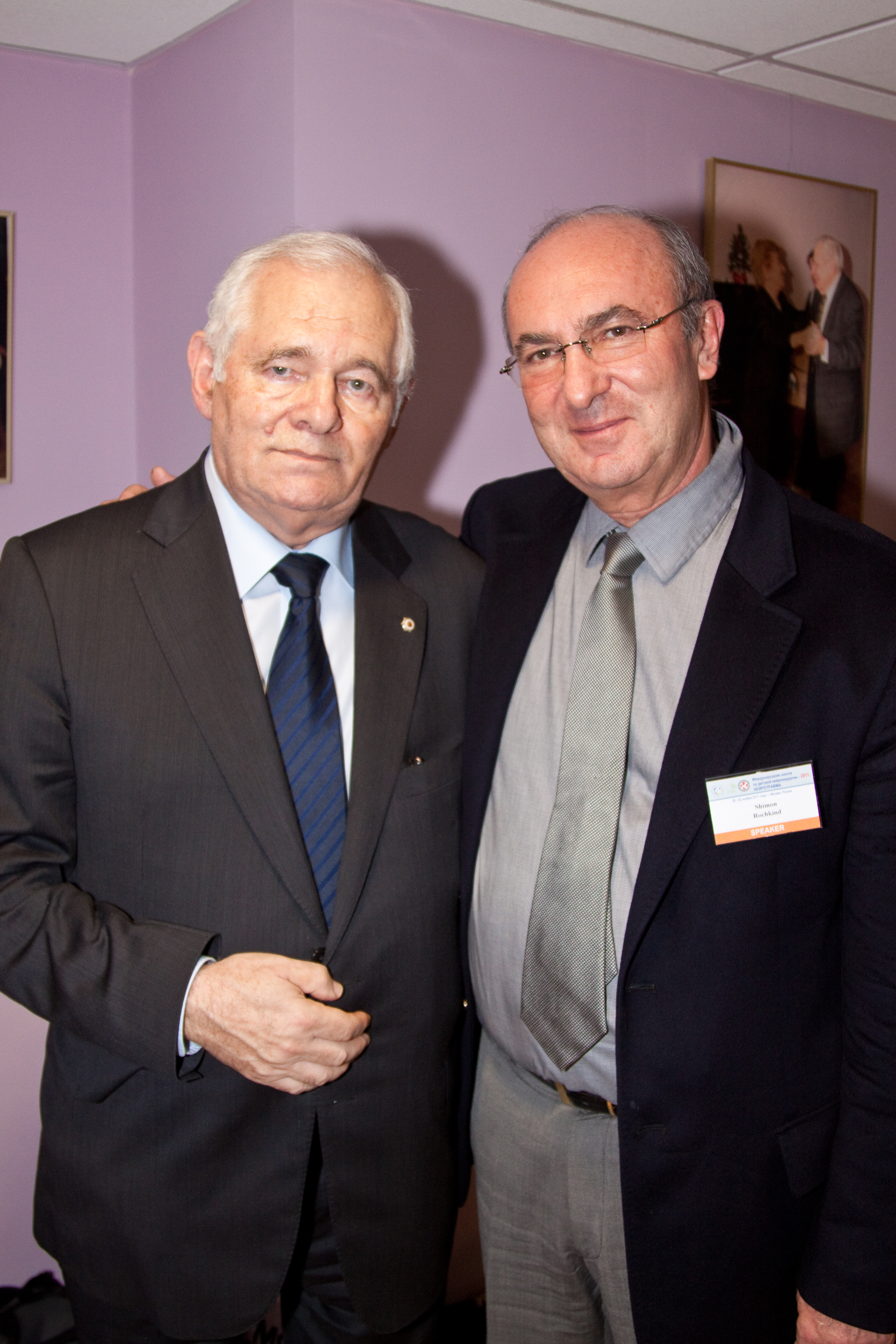 Prof. Leonid Rochall & Prof. Shimon Shimon